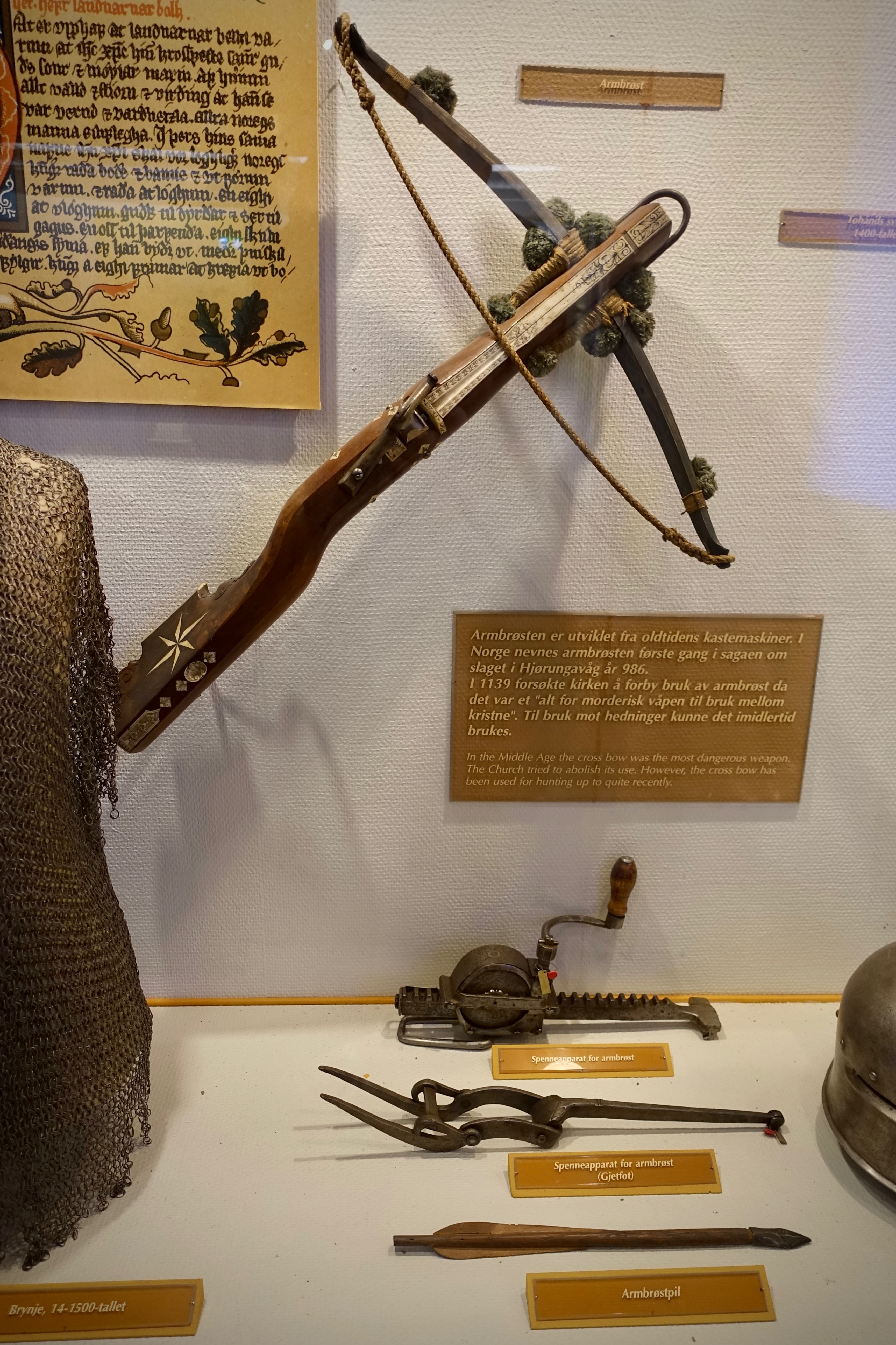 Weapons and armour from the Middle Ages in Norway: crossbow with two spanning mechanisms (windlass and cranequin) and arrow (bolt, quarrel). From the exhibitions of the Armed Forces Museum of Norway (Forsvarsmuseet) in Oslo, Norway. Photo taken on 2019-03-31.